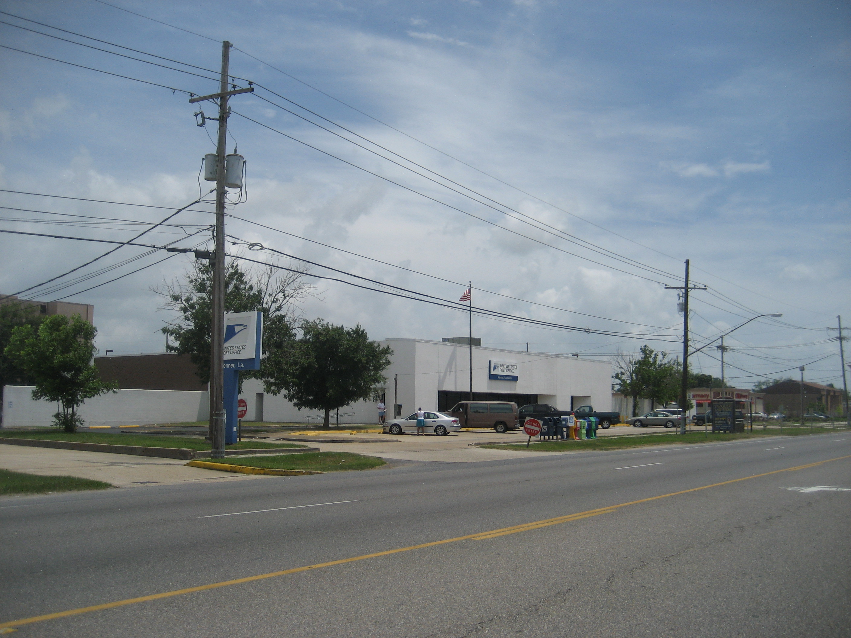 Kenner, Louisiana. Post office.